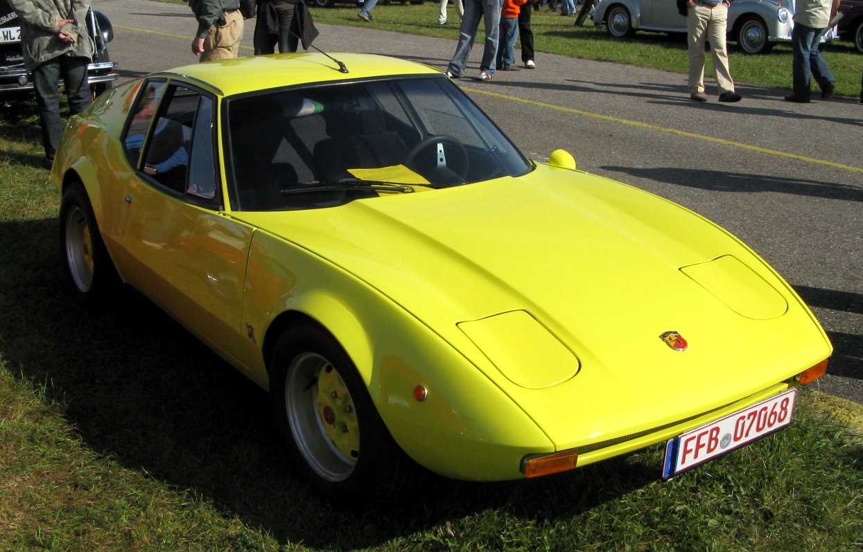 1968 Lombardi Grand Prix at a vintage vehicle and airplane show in Jesenwang (Bavaria)